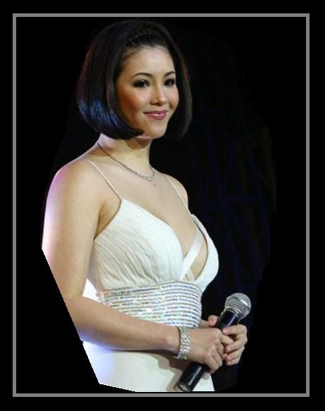 Regine Velasquez Live. Photo taken during a concert. To be used in the Regine Velasquez Article. Source Information Source: My camera. A Sony Cybershot Point and Shoot Digital camera which was a gift to me. The camera was bought from Bestbuy and manufactured by Sony, Intl. Photo was taken by Maoster. Photo was taken from a live concert in 2006. Inspired by Vermeer's portrait called "The Girl With A Pearl Earring" I edited the graphic to give it a black background and added a silver border. I used MS Paint to edit the photo.